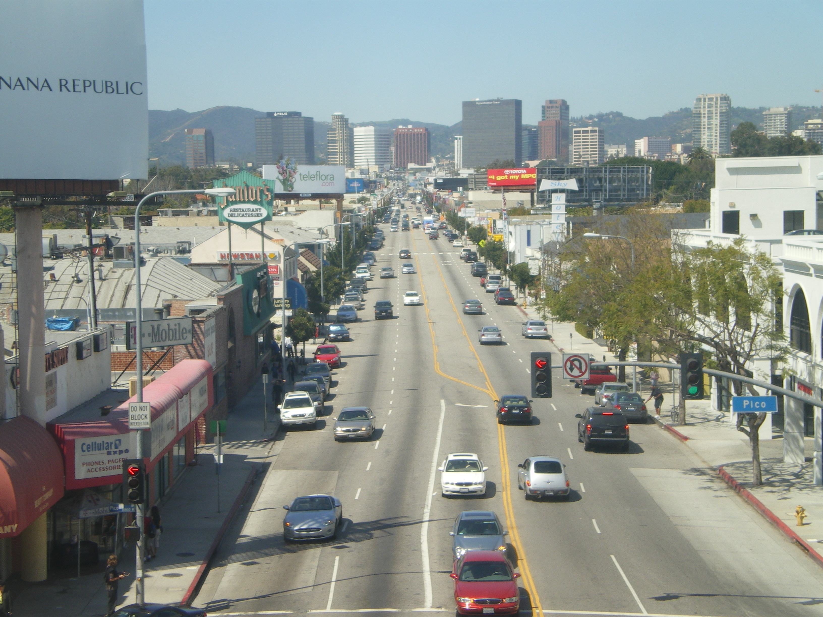 Looking Up Westwood Blvd. from Westside Pavilion Westwood Blvd. from Westside Pavilion